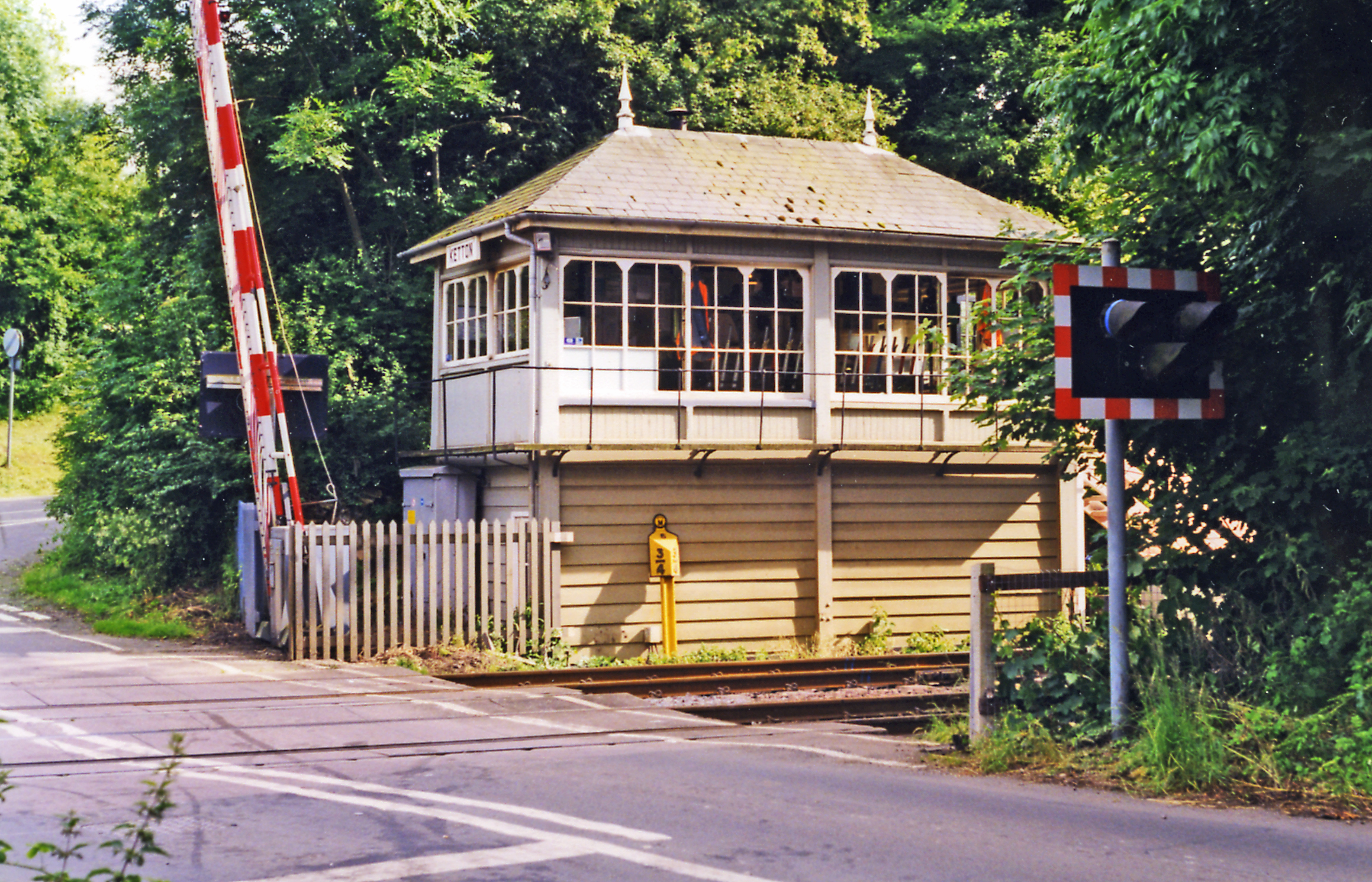 Ketton signalbox, 1998. The box was still controlling the level-crossing at the site of the former Ketton & Collyweston station